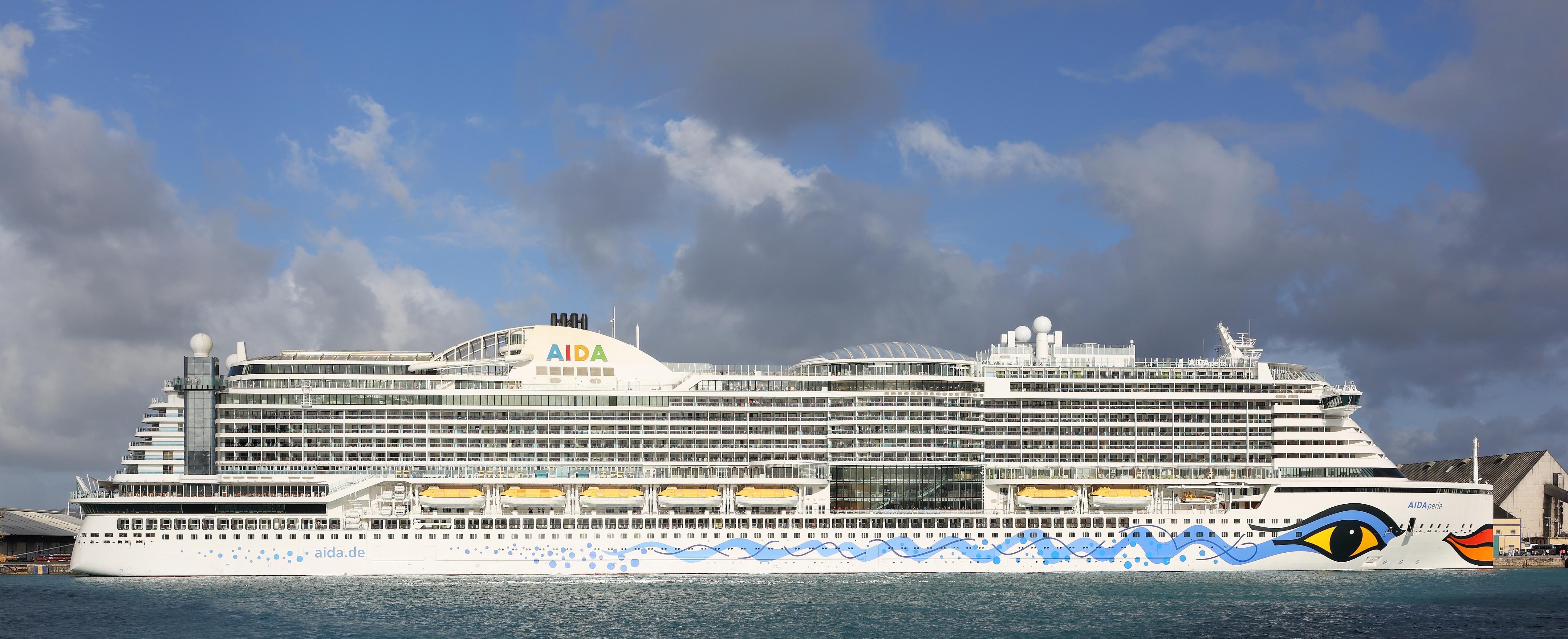 AIDAperla in the port of Bridgetown, Barbados.